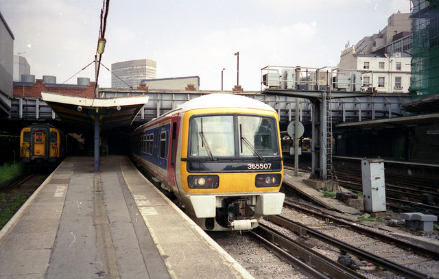 London Victoria station This shows a brand-new Class 365 electric unit, and was taken on the first day that one of these units worked into Victoria. They are sliding-door trains which are capable of operating from either the Southern Region 750V dc third-rail or the 25kV overhead wires used on the Eastern and London Midland lines.